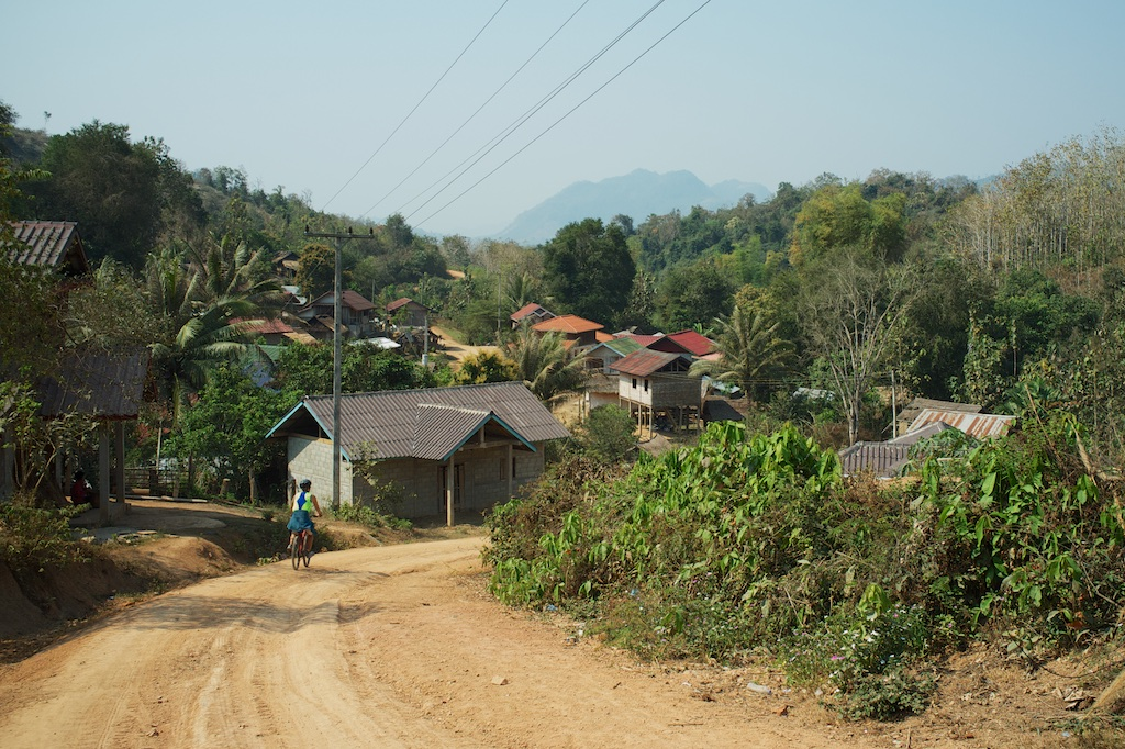 Khokmanh landscape. Photo by CHESH LAO